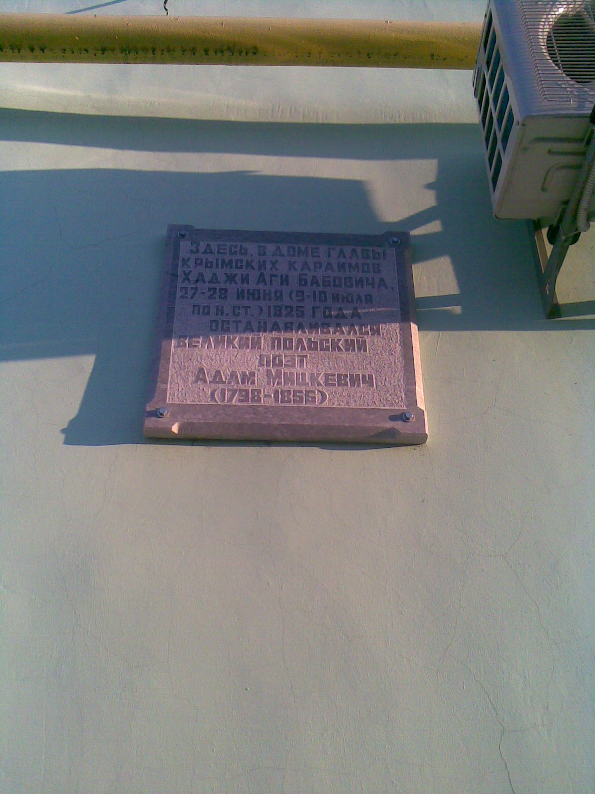 Evpatoria-045